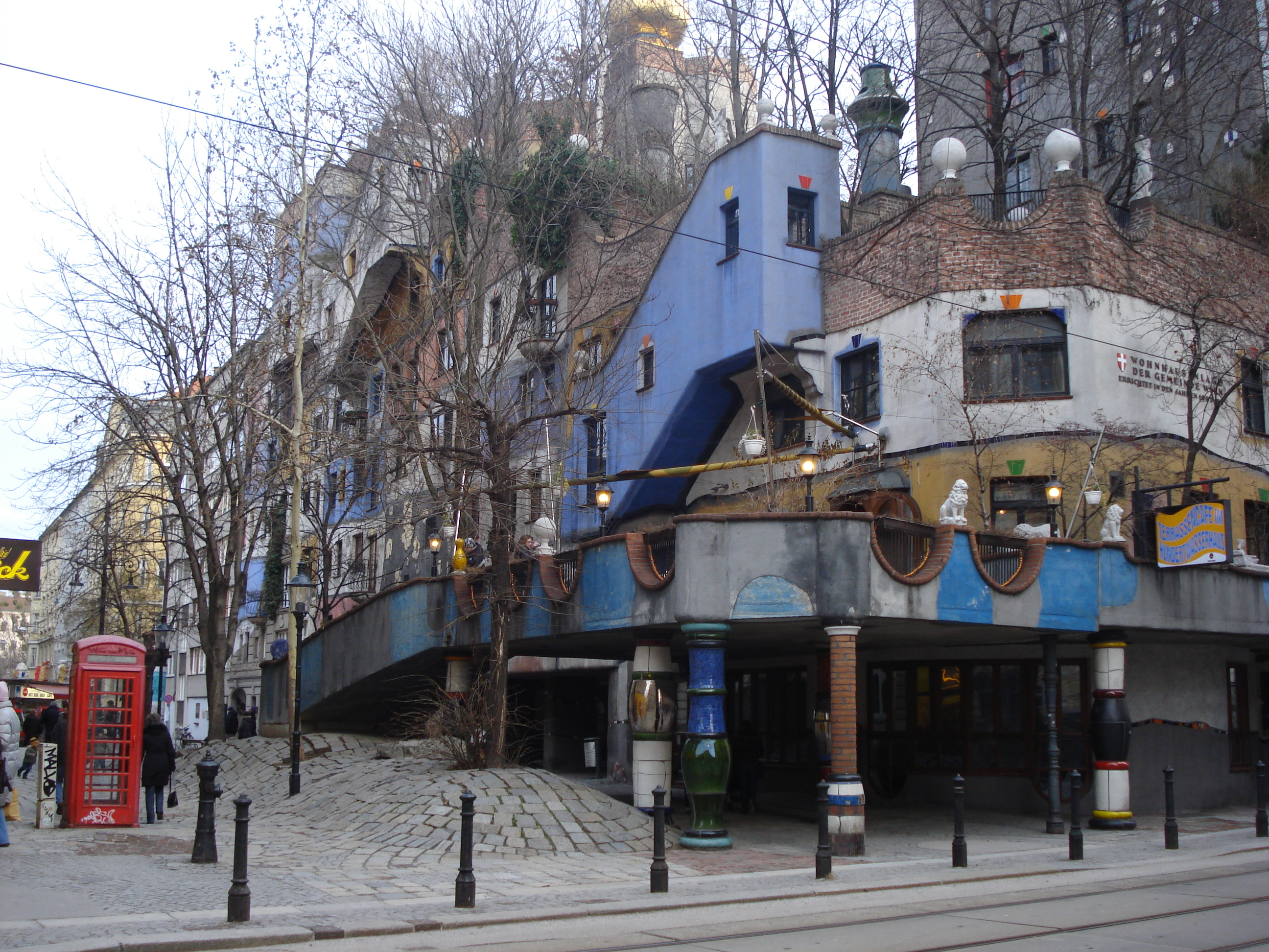 Austria, Vienna, Hundertwasserhaus